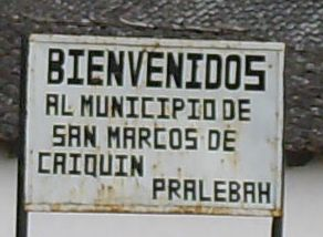 San Marcos de Caiquín, municipality in the Honduran department of Lempira.